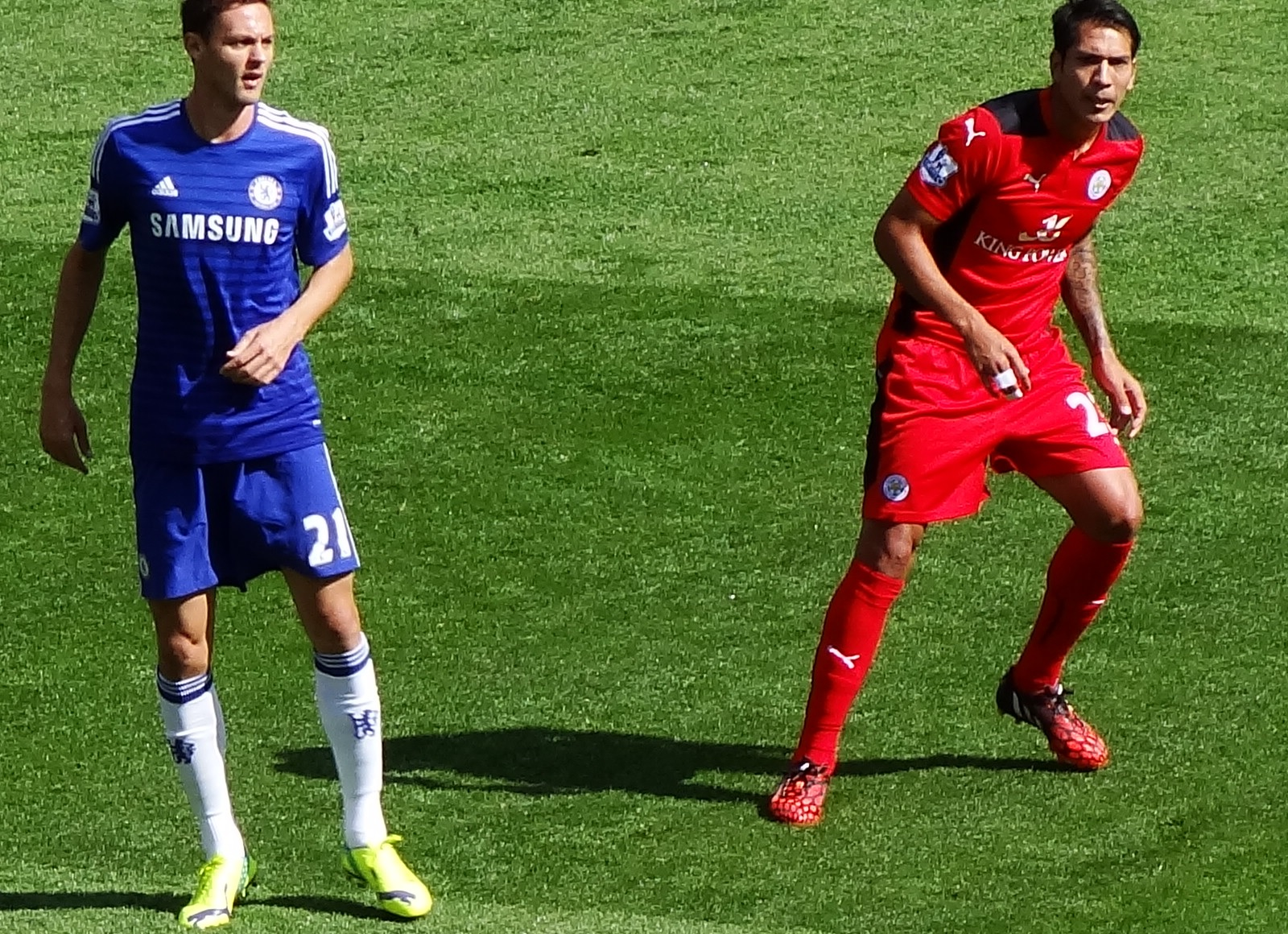 Leonardo Ulloa of Leicester City